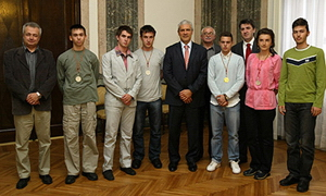 Matematička gimnazija - Mathematical Gymnasium Belgrade - MGB - Students with Serbian President Boris Tadić and Minister of Education Žarko Obradović